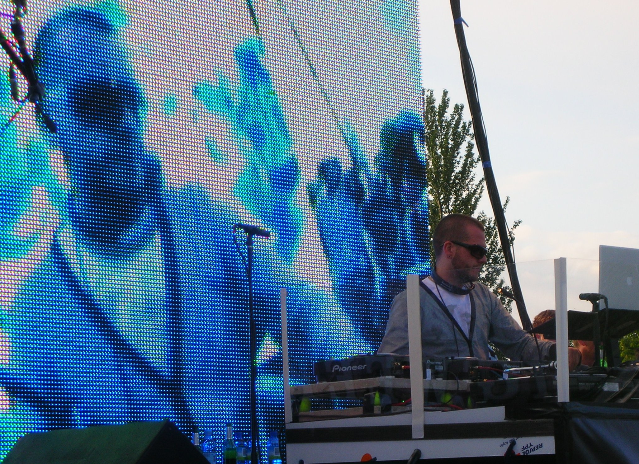 Irish DJ Fergie at a Radio 1 event.